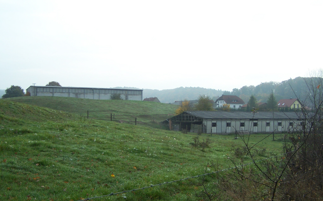 The agricultural enterprise Krayenburg in Frauensee.